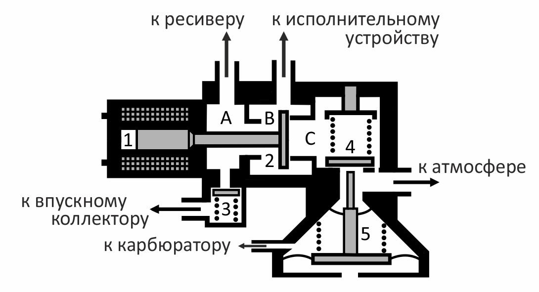 'Saxomat' autoclutch valves block.